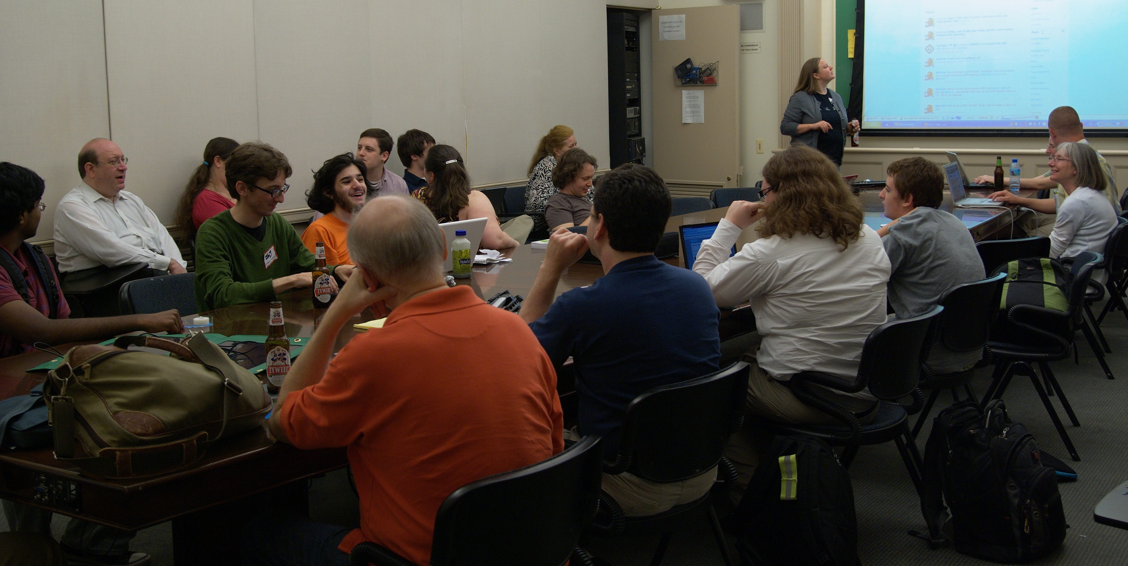 Wikipedia Signpost editors hard at work at the at the NYC Wiki-Conference 2009.